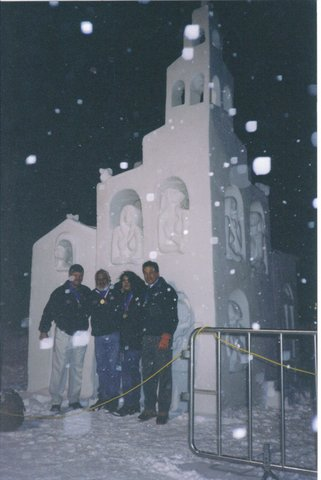 1 Abel Ramírez Águilar with snow sculpture called "Little Village" at the International Snow Sculpture Championships in Breckenridge, Colorado 1999. Ramirez was captain of Mexican team with Graciela Ferreiro, Gabriel Rayar and Robert Hancock the sculpture won first place/gold medal